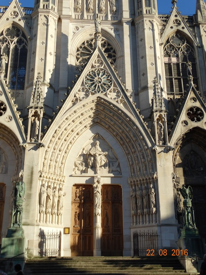 Entrance to Basilique Saint-Epvre de Nancy